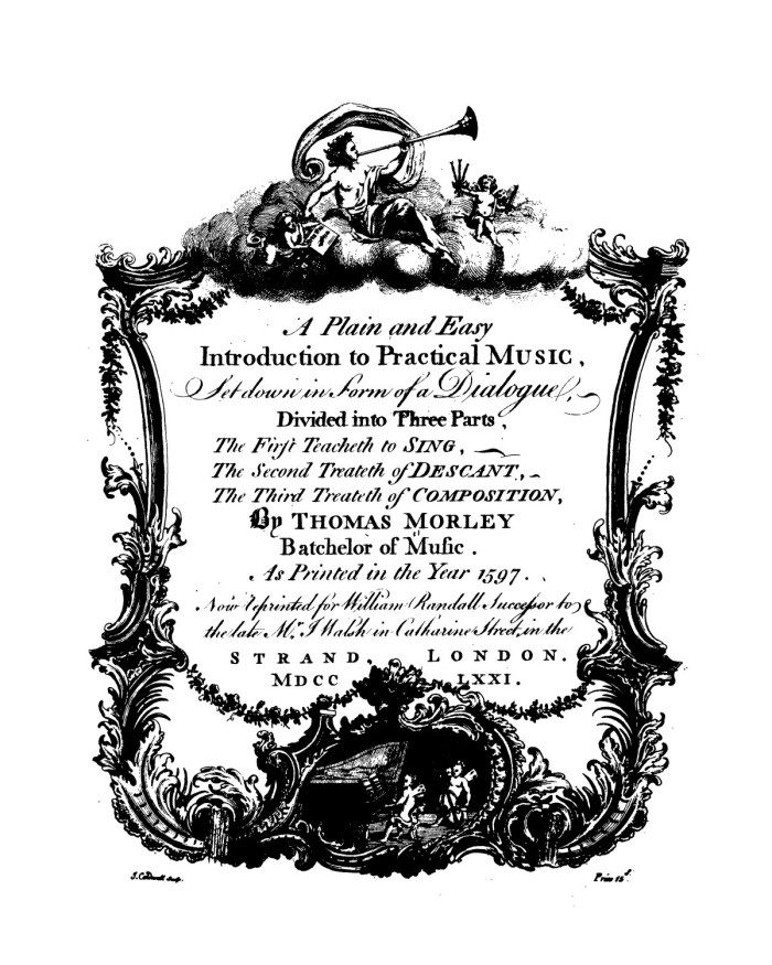 Cover for "Plaine and Easie Introduction to Practicall Musicke" by Thomas Morley. 1771 reedition by William Randall succ. London.